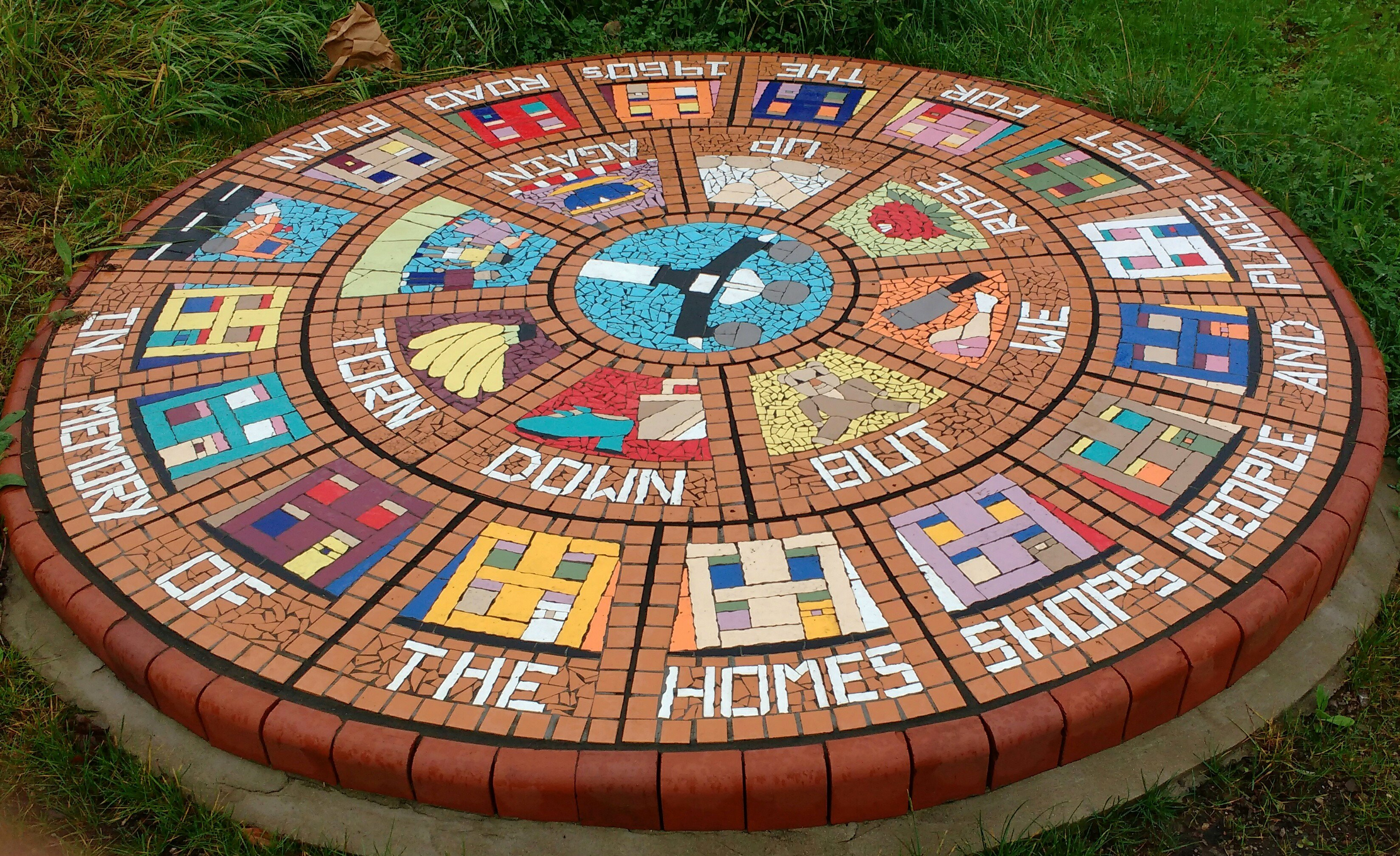 Totterdown